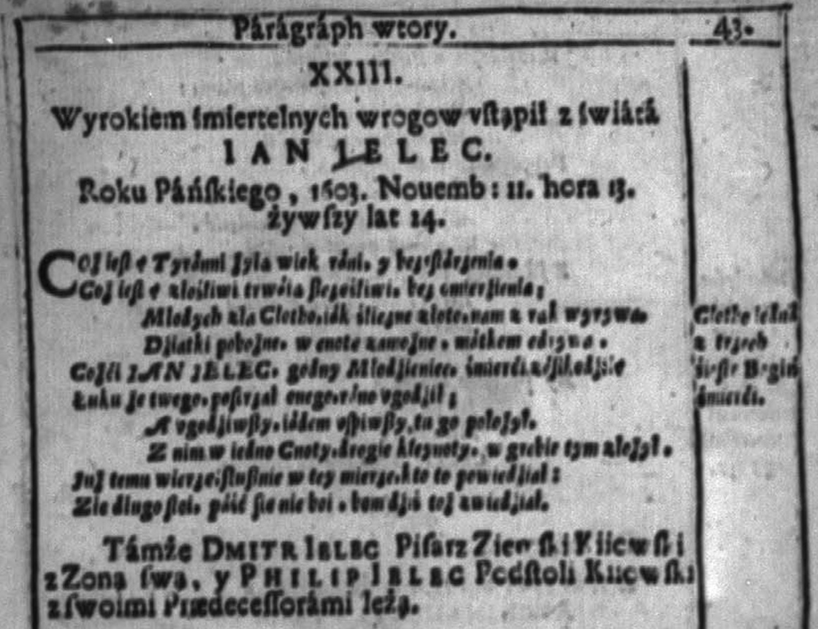 On tombstones Jan Jelec and information about other members of the family, buried in the Kiev-Pechersk Monastery. Athanasius Kalnofoysky "Teraturgema", 1638, page 43.